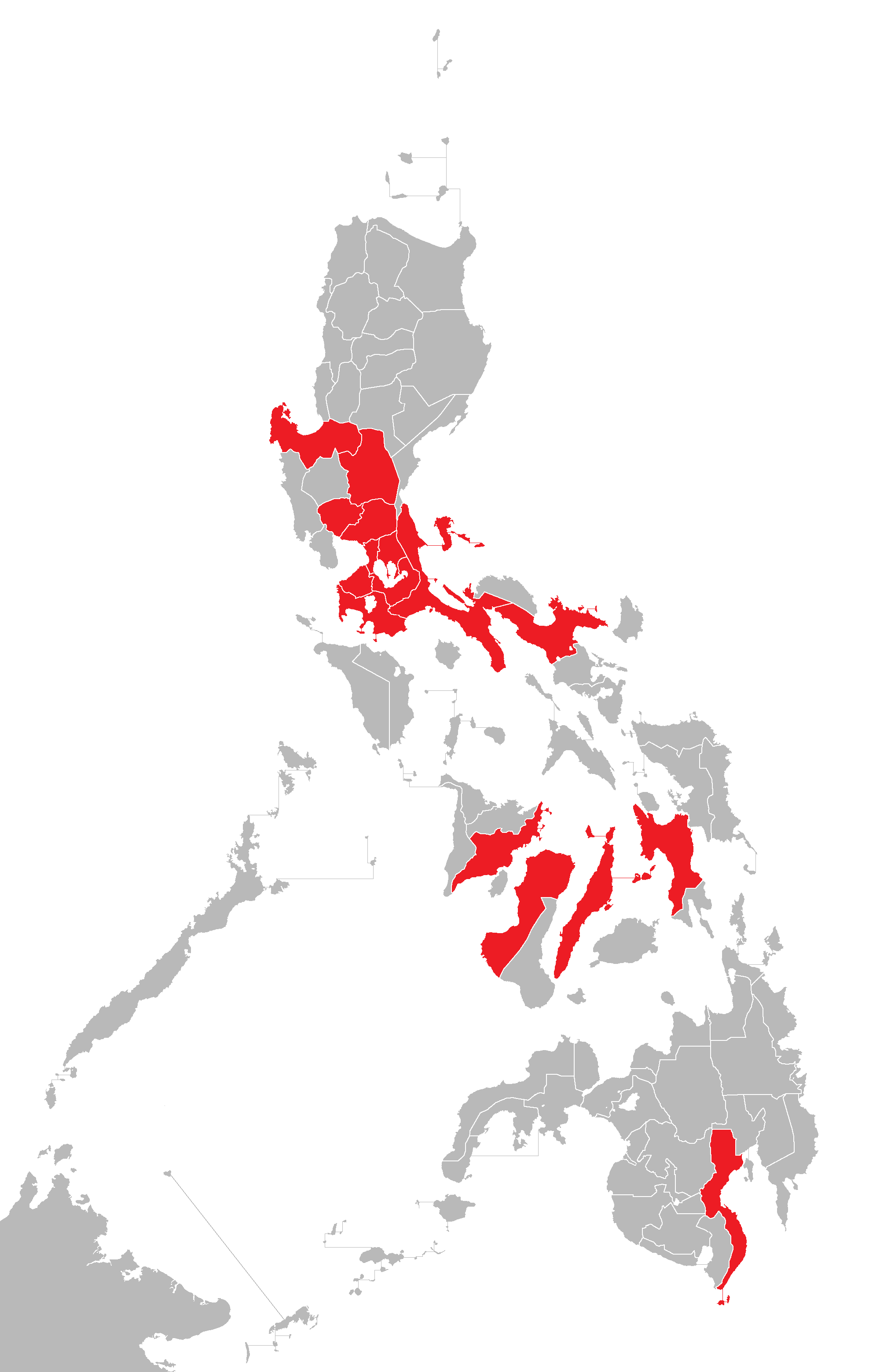 "Vote rich provinces" in the Philippine general election, 2016. Typically, candidates for president, vice president, senator and party-list campaign in these provinces to reduce costs. These includes provinces and Metro Manila as a whole, that has more than 1 million voters. Together, there are more than half of the registered voters for this election.